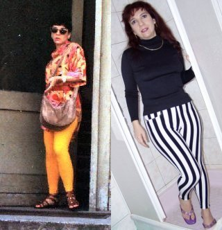 Luxury Leggings (clothing)